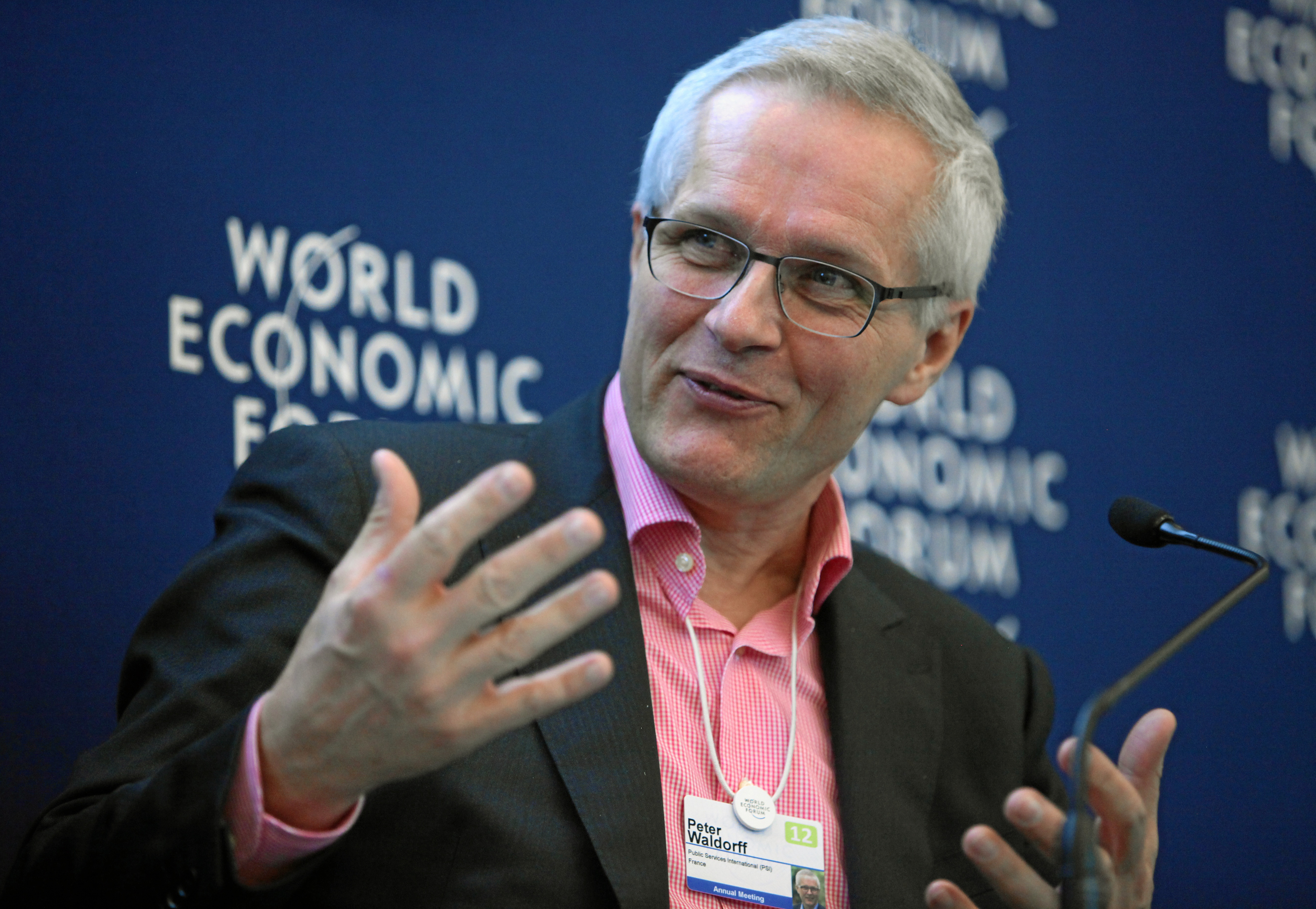 DAVOS/SWITZERLAND, 28JAN12 - Peter Waldorff, General Secretary, Public Services International (PSI), France, gestures during the session 'Trust and the Social Contract' at the Annual Meeting 2012 of the World Economic Forum at the congress centre in Davos, Switzerland, January 28, 2012.. . Copyright by World Economic Forum. by Monika Flueckiger